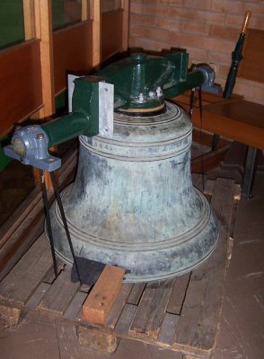 All Saints Cathedral Bells: Photograph of one of the Cathedral bells on display in the foyer of All Saints Anglican Cathedral, Bathurst, 2004 (the others are in storage)